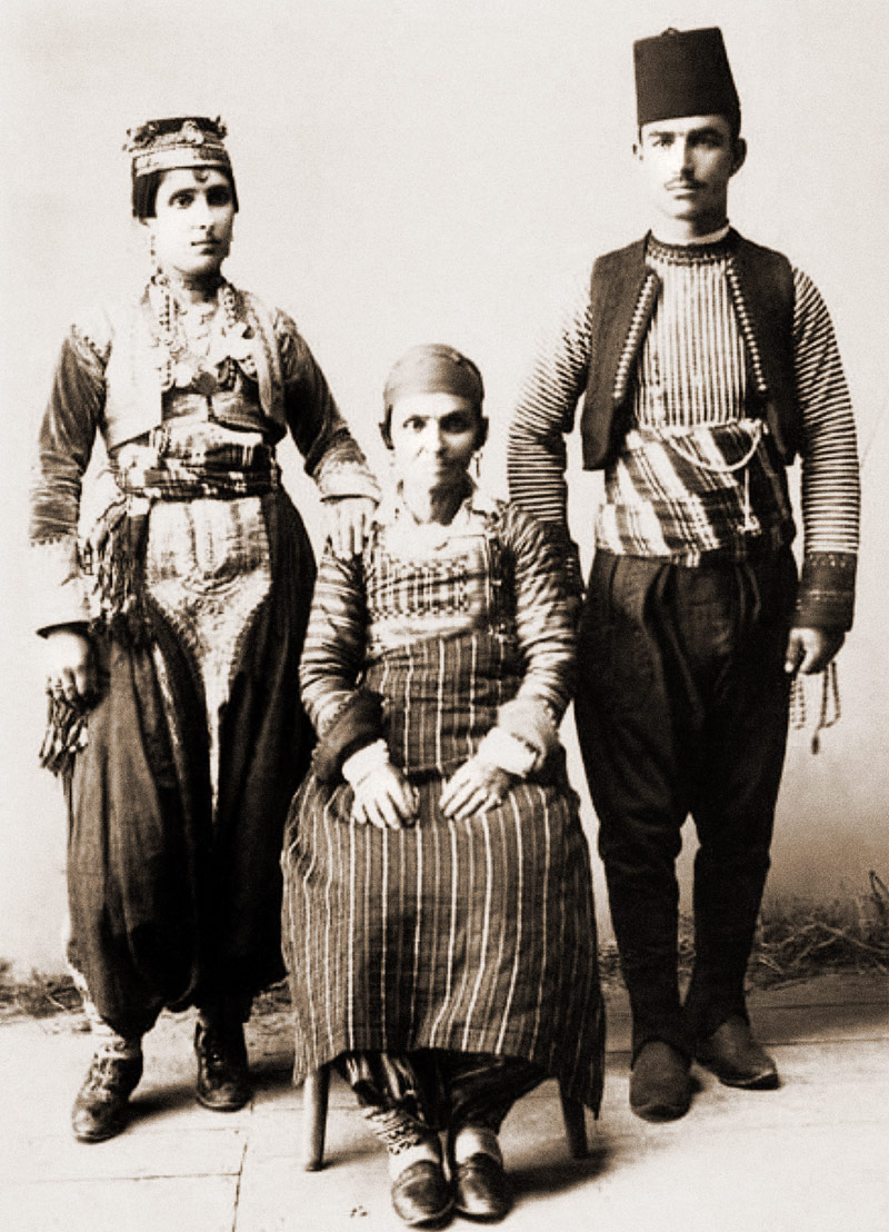 Albanian catholic family from Skopje, Macedonia. Early XX century.